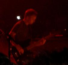 Nate Mendel of the Foo Fighters